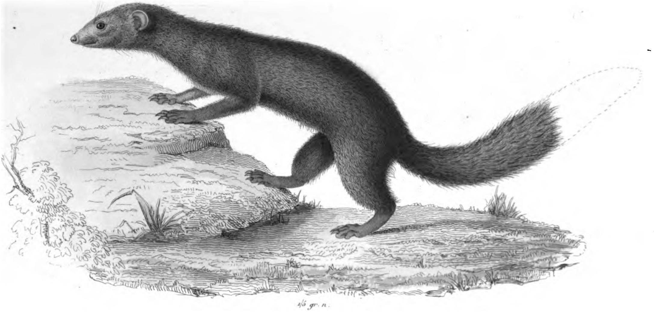 Plate of Galidia olivacea I. Geoffroy Saint-Hilaire (=Salanoia concolor), a small carnivoran from Madagascar.